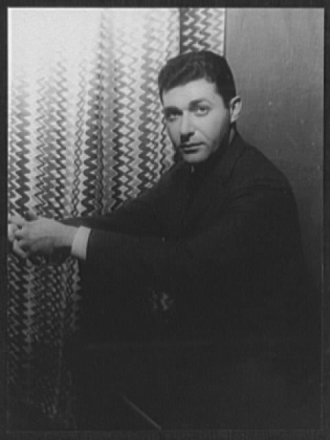 Title: Portrait of Martin David Levy Abstract/medium: 1 photographic print : gelatin silver.